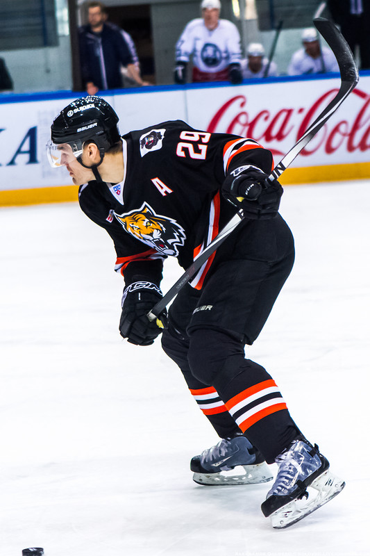 Amur Khabarovsk defenceman Jan Kolář during KHL game against Medveščak Zagreb on February 2, 2016.